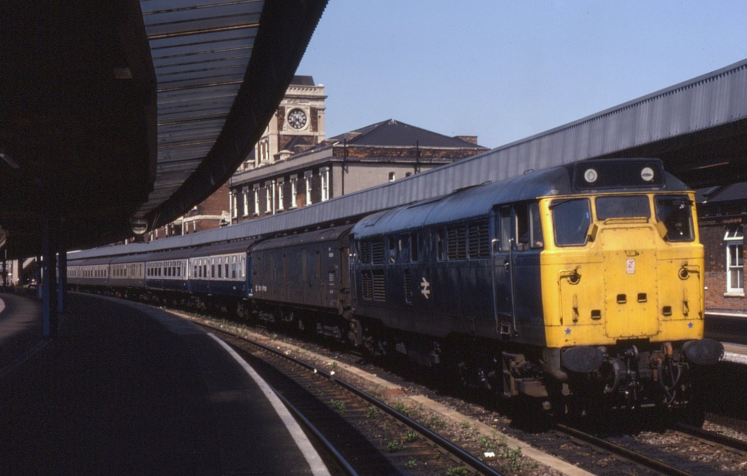 Brush type 2, Class 31s were regular workers in East Anglia on passenger trains until the late 1980s. On 29 May 1982, 31169 is seen at Harwich Parkeston Quay having arrived on a service from Peterborough.